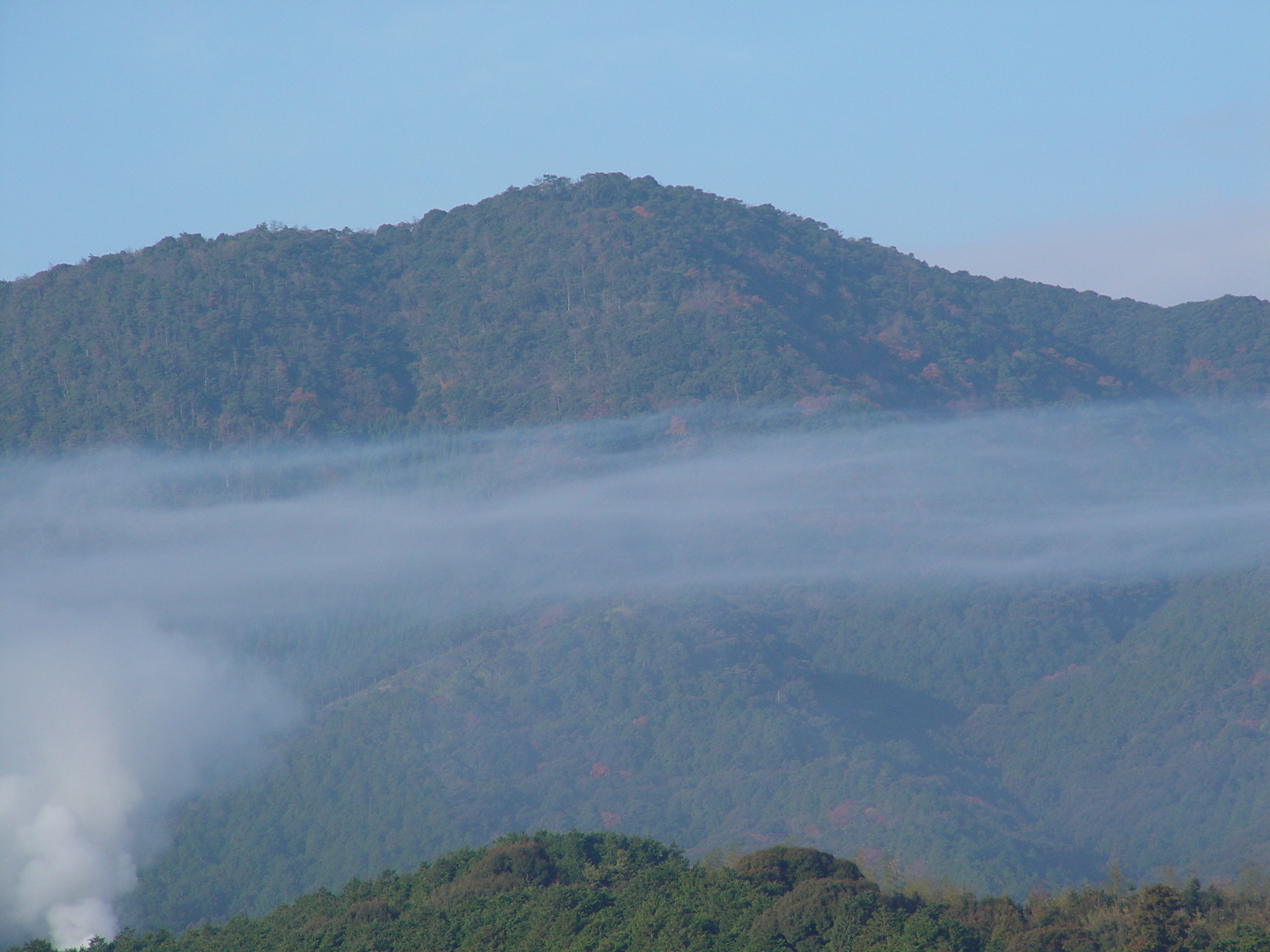 Ground inversion layer 冬の朝に見られる大気の接地逆転層